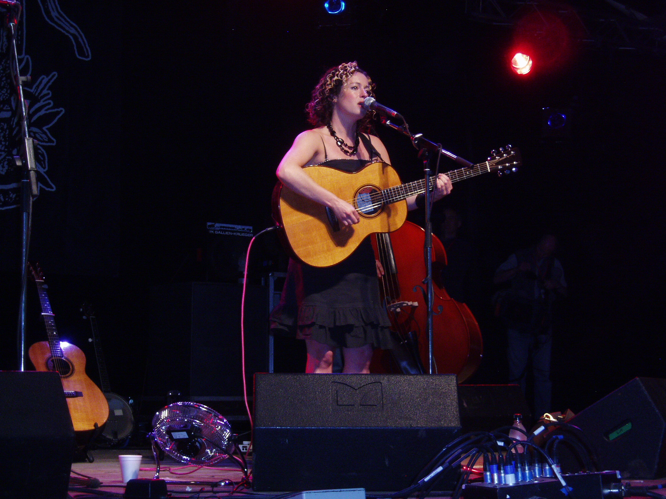 Kate Rusby at the Trowbridge Village Pump Festival 2007